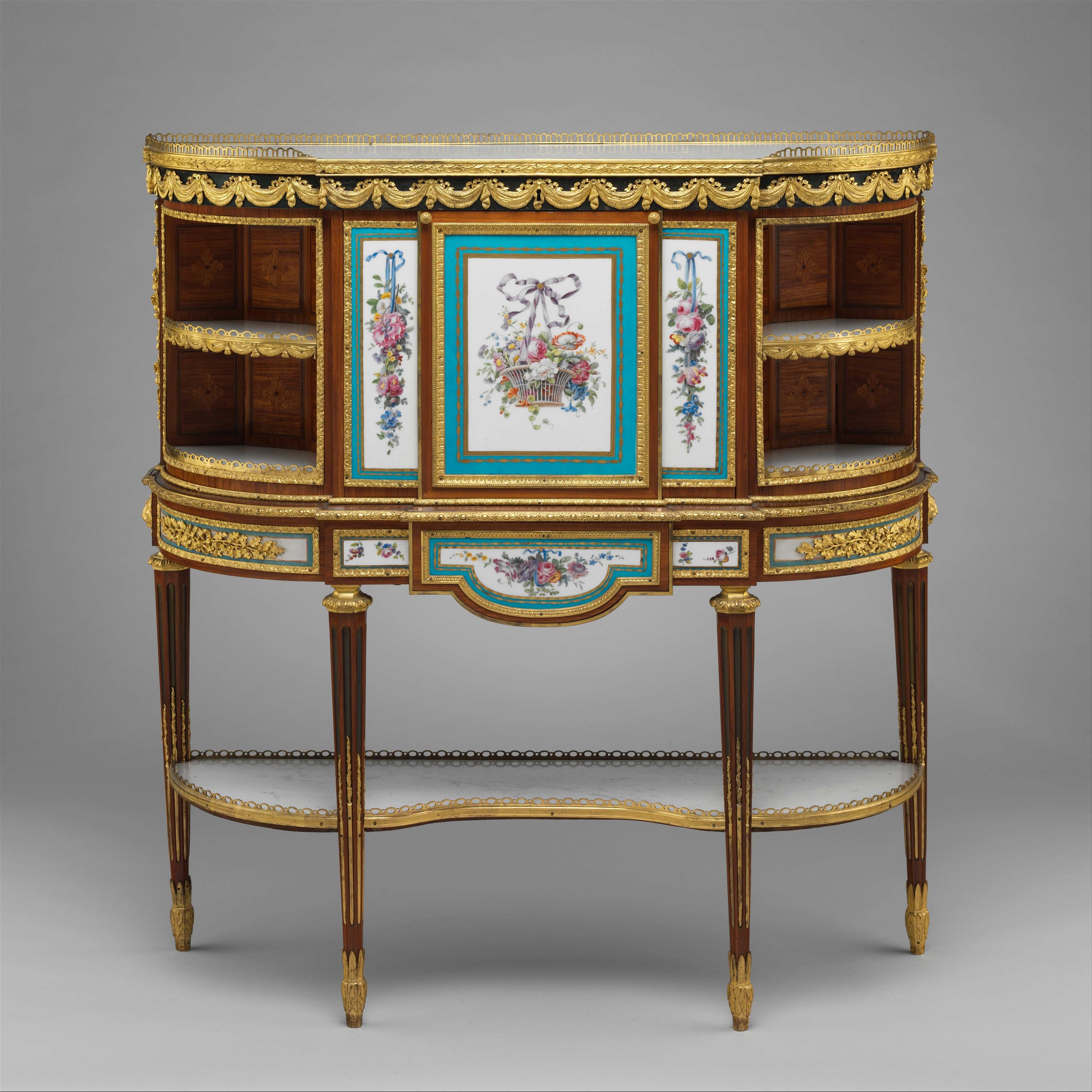 French, Paris and Sèvres; Desk; Woodwork-Furniture